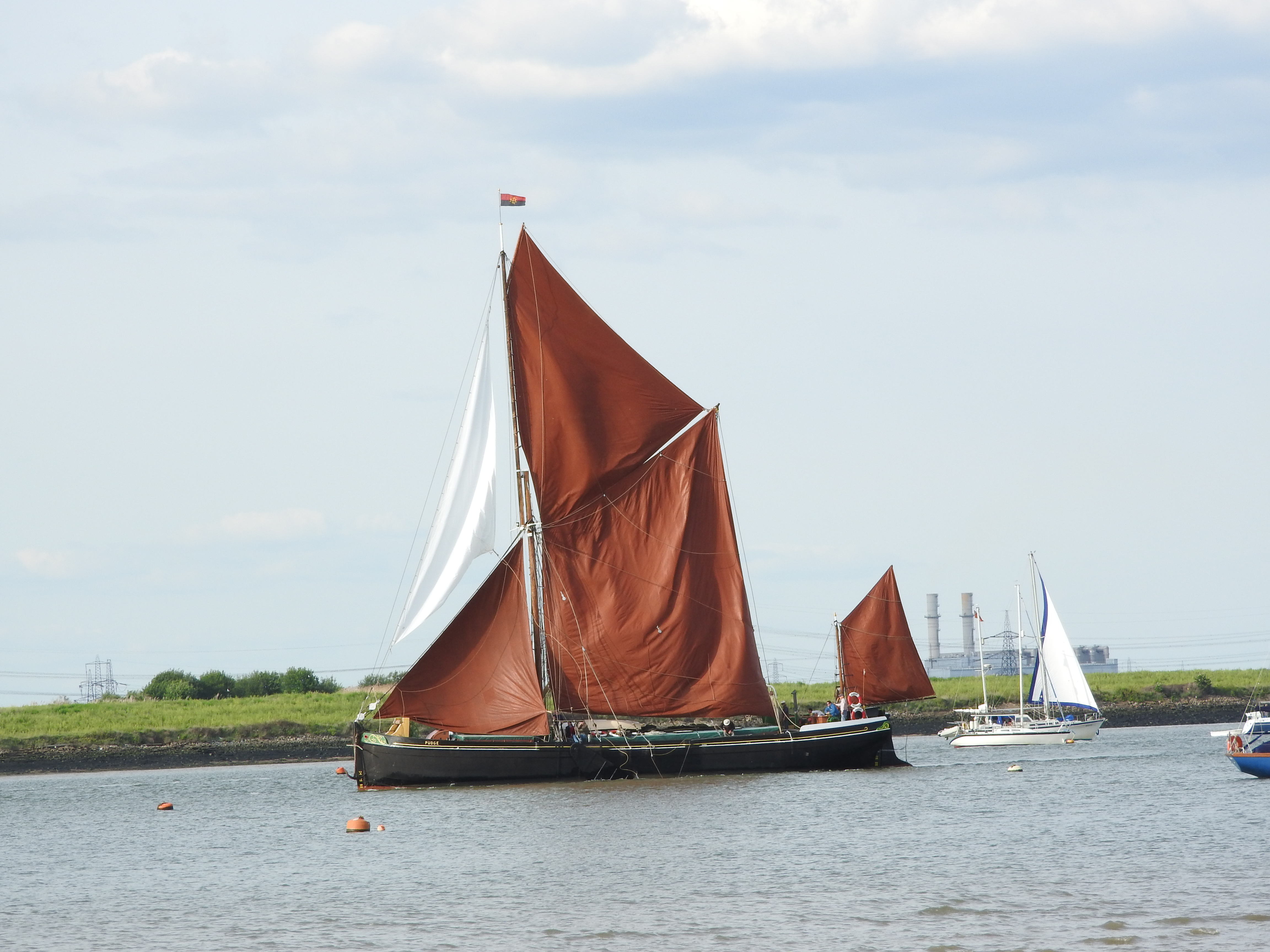 Thames barge competing in the 109th Medway Barge Sailing match, viewed from the shore at Gillingham Pier.